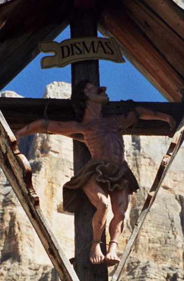 Dismas, the good felon crucified to the right of Jesus, depicted here in Italy, South Tyrol, Badia/Abtei, Heilig-Kreuz-Kirche/Santa Croce/La Crusz, picture taken 2003 September.